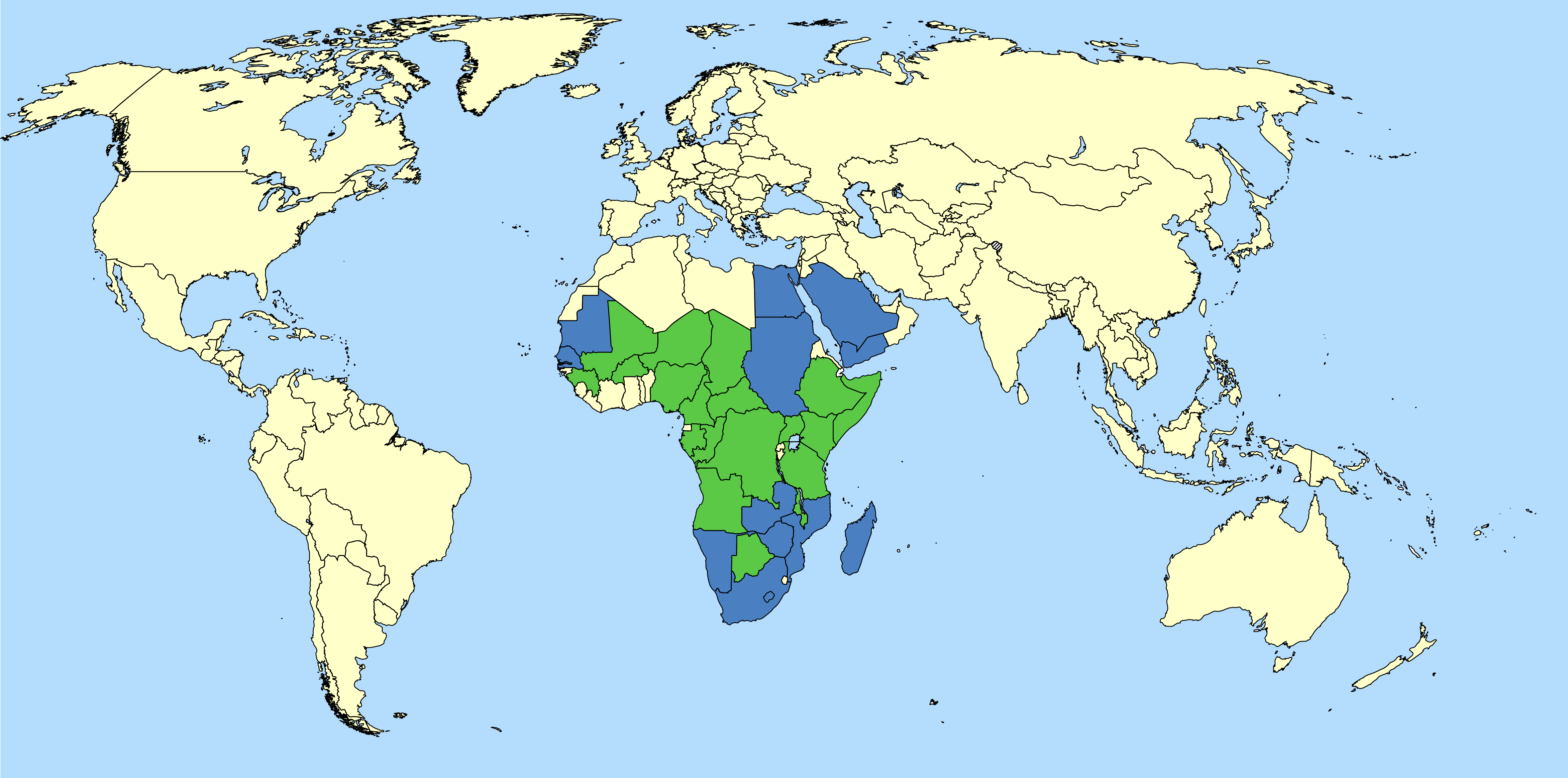 Rift Valley Fever Distribution Map according to data of the CDC: Countries with endemic disease and substantial outbreaks of RVF: Gambia, Senegal, Mauritania, Namibia, South Africa, Mozambique, Zimbabwe, Zambia, Kenya, Sudan, Egypt, Madagascar, Saudi Arabia, Yemen Countries known to have some cases, periodic isolation of virus, or serologic evidence of RVF: Botswana, Angola, Democratic Republic of the Congo, Congo, Gabon, Cameroon, Nigeria, Central African Republic, Chad, Niger, Burkina Faso, Mali, Guinea, Tanzania, Malawi, Uganda, Ethiopia, Somalia